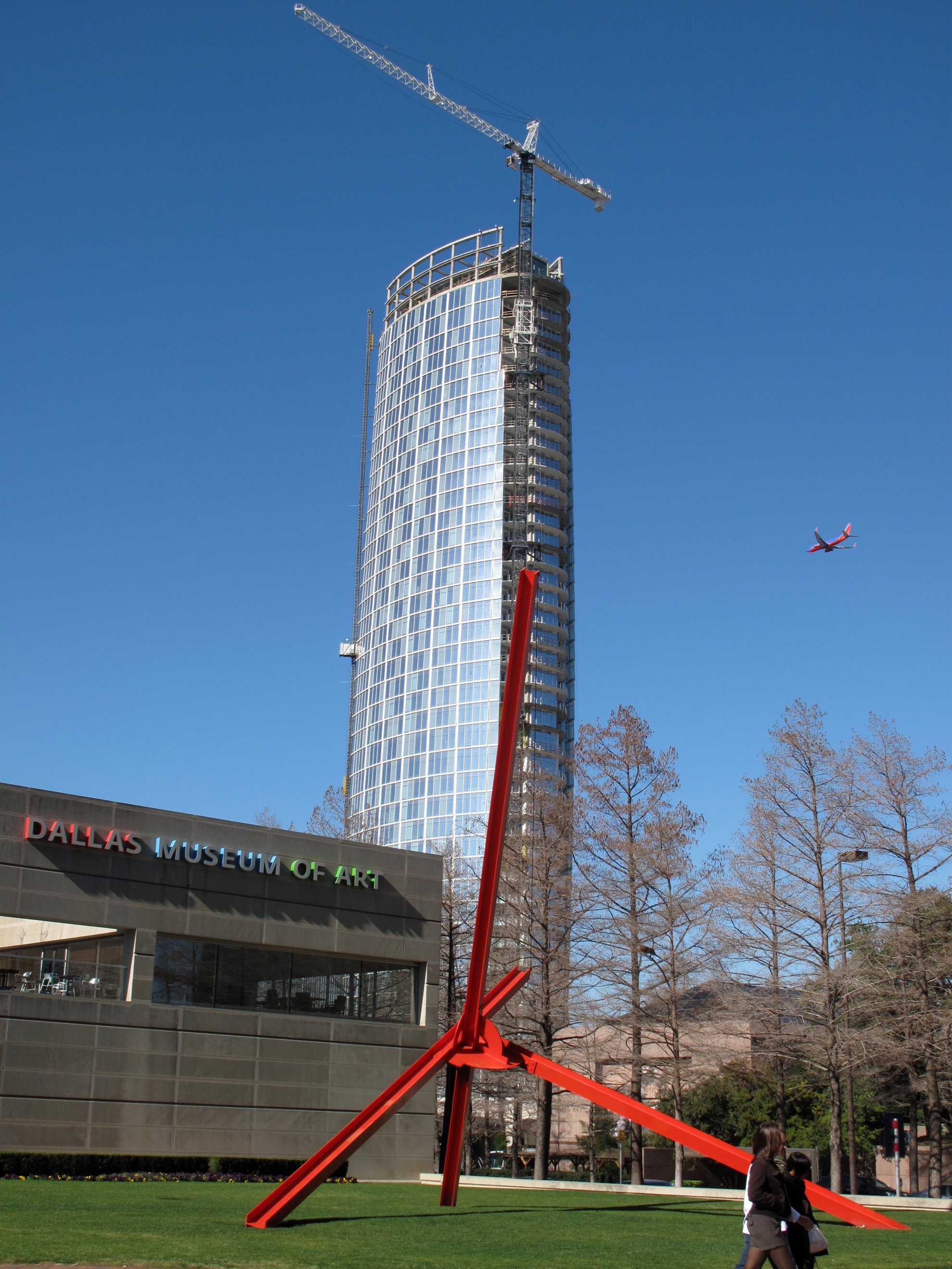 Museum Tower, a skyscraper in Dallas - taken while still under construction in early 2012